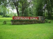 The Entrance Sign off the Main Road